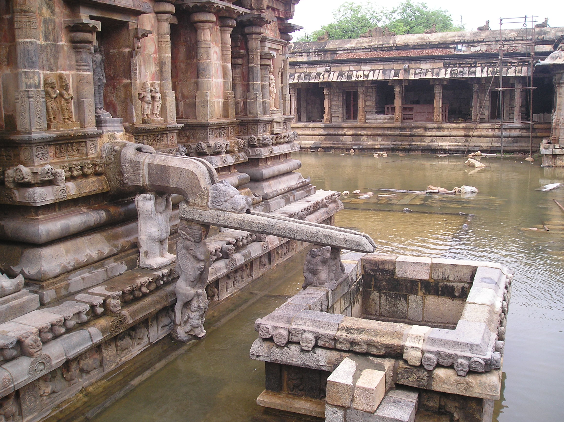 Darasuram temple pictures